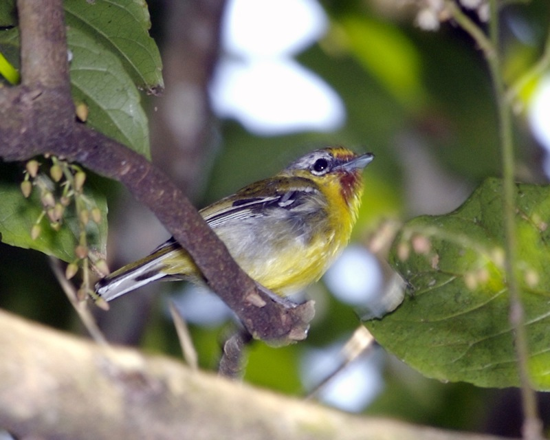 Chestnut-fronted Shrike Babbler (Pteruthius aenobarbus) at Cibodas, Java, Indonesia.